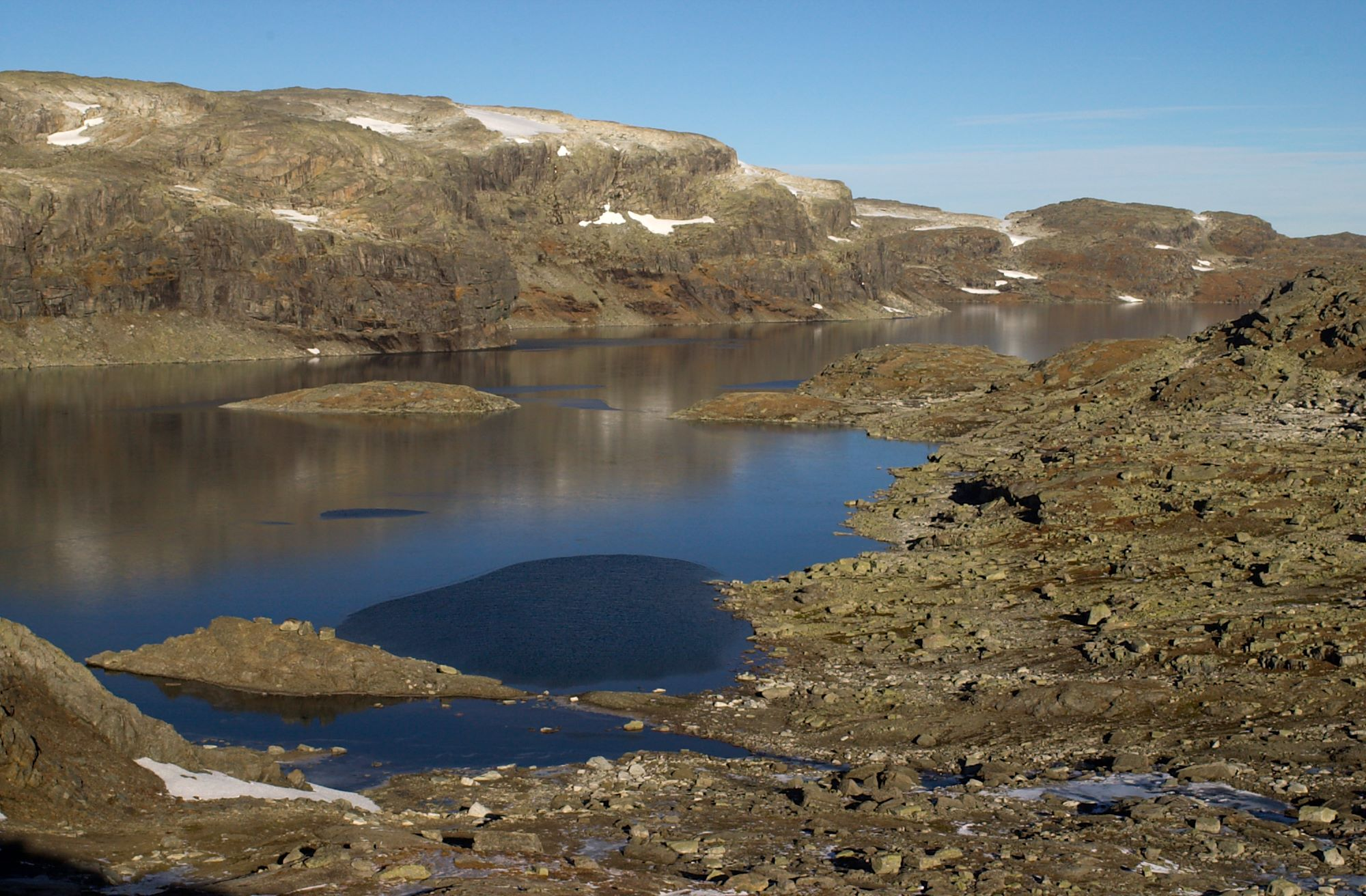 Lake Flakavatn, at 1453 m above sealevel, is located in a depression in the Hallingskarvet mountain massif, and has a subpolar character despite its location in southern Norway. Photography taken Oct. 19th 2005 during icecover formation.